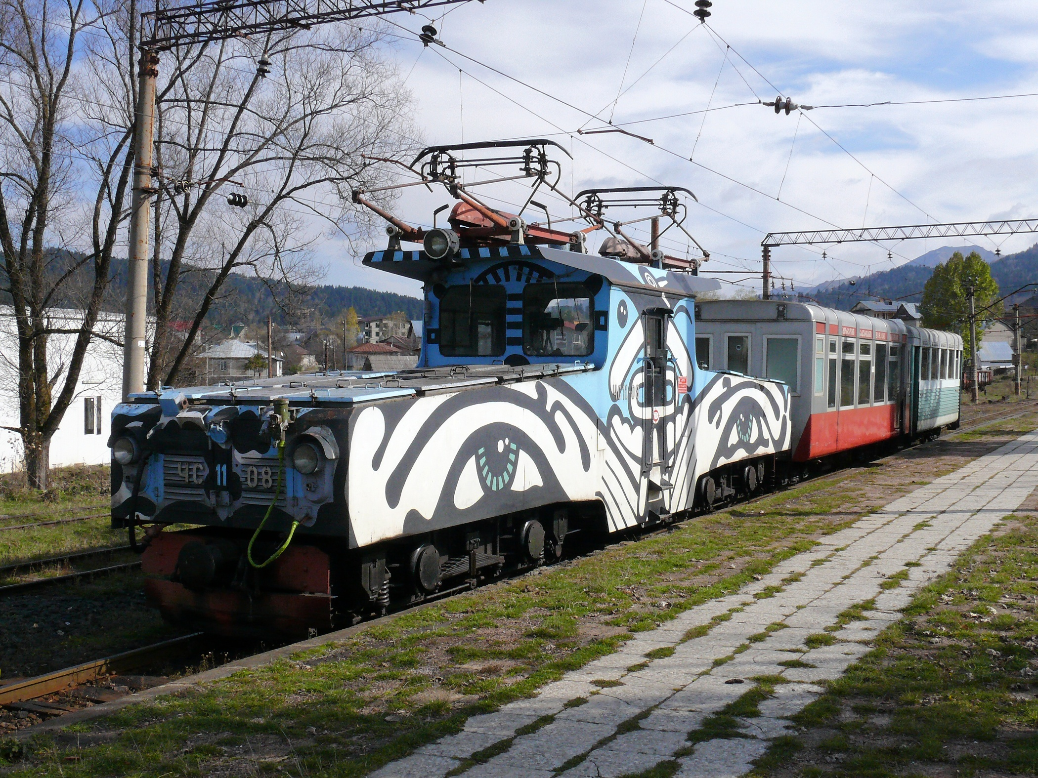 Narrow gauge railway in Georgia, passenger train in Bakuriani